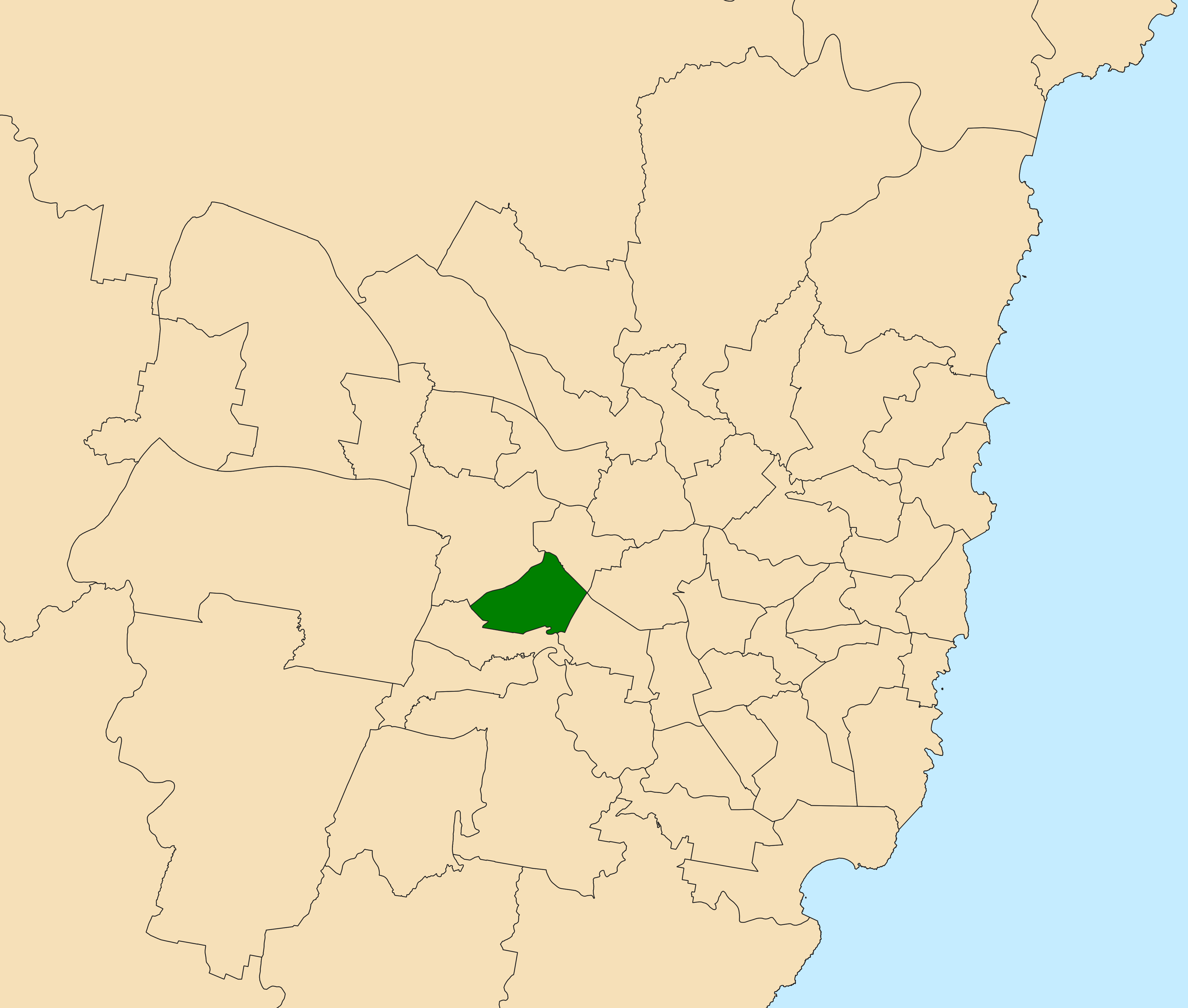 Location of the state electoral district of Fairfield (dark green) in the metropolitan Sydney area as of the 2019 New South Wales state election. Incorporates or developed using Administrative Boundaries ©PSMA Australia Limited licensed by the Commonwealth of Australia under Creative Commons Attribution 4.0 International licence (CC BY 4.0).